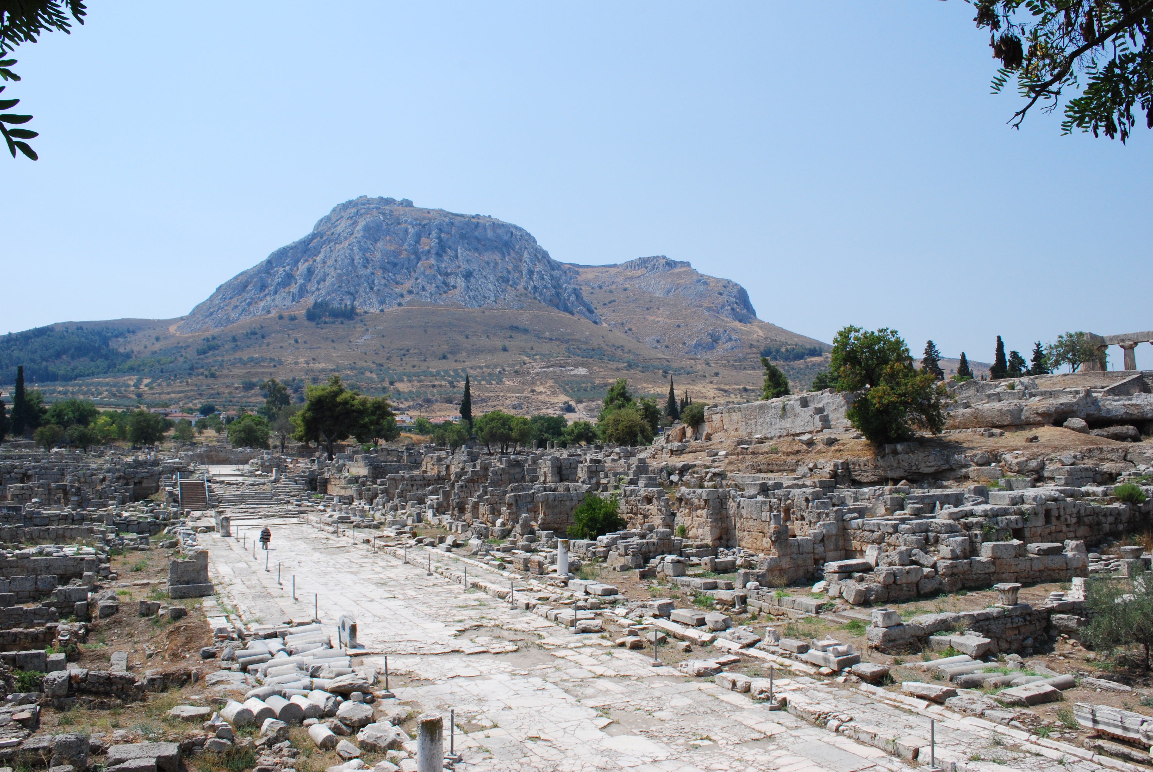 Lechaion Road in Ancient Corinth.